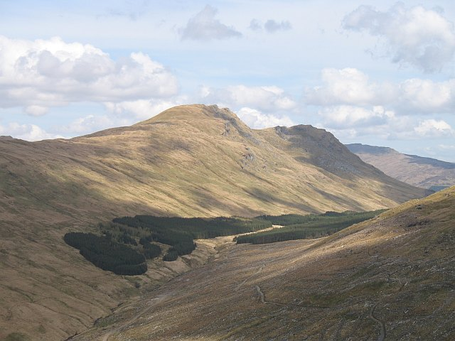 Beinn Lochain The steep southern slopes of Beinn Lochain above the Bealach an Lochain. View from Beinn Lagan.